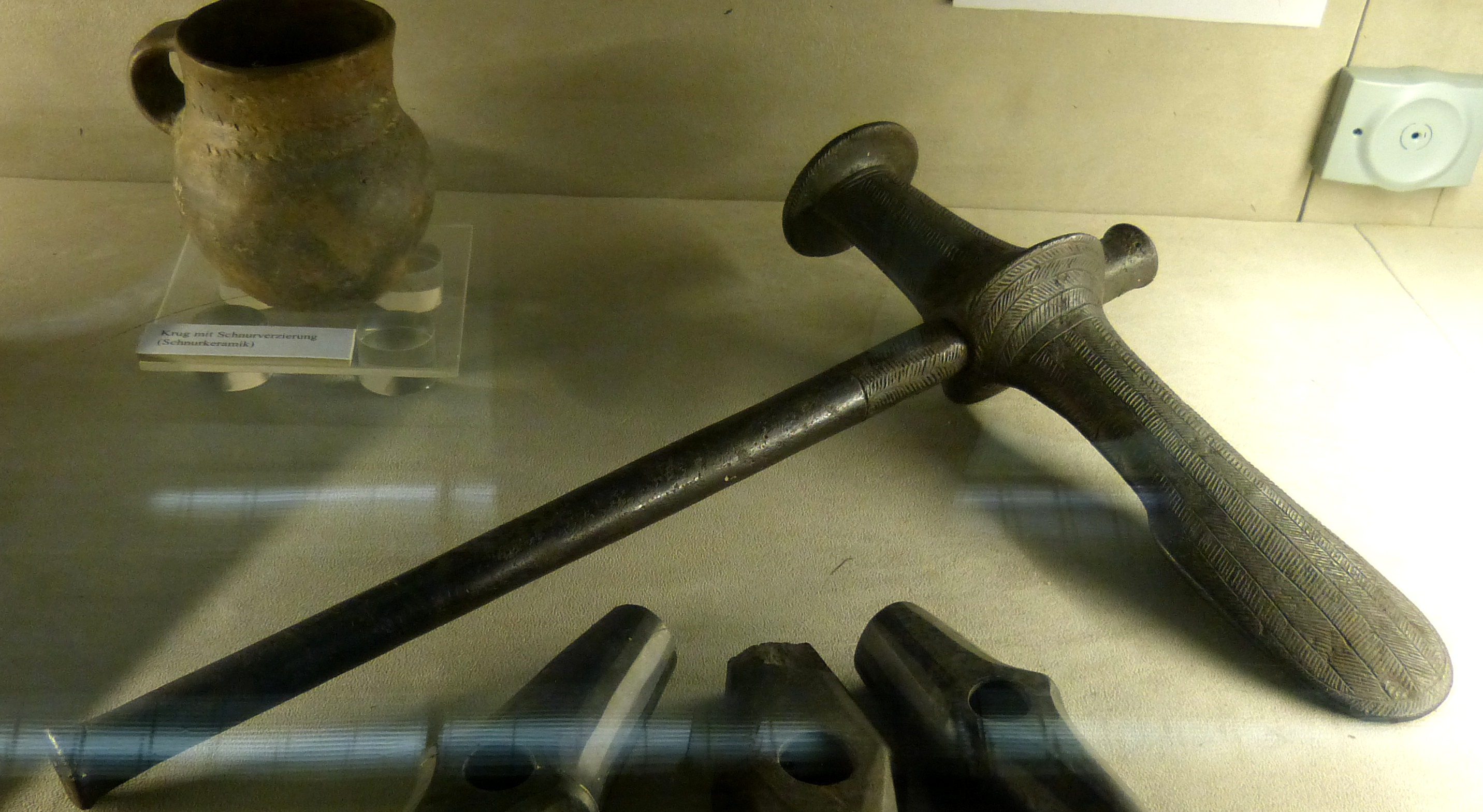 Natural History Museum, Vienna ( Austria ). Corded ware axe from Lusice.